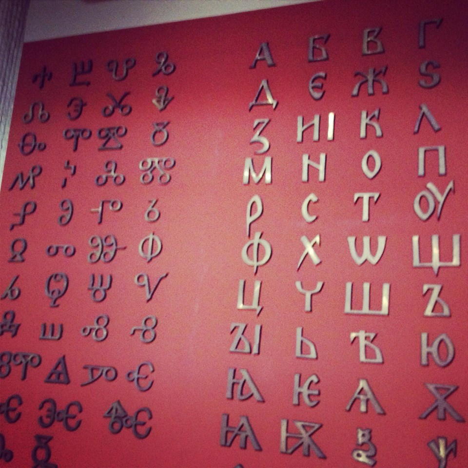 Cyrillic Alphabet as invented by St. Clement of Ohrid.